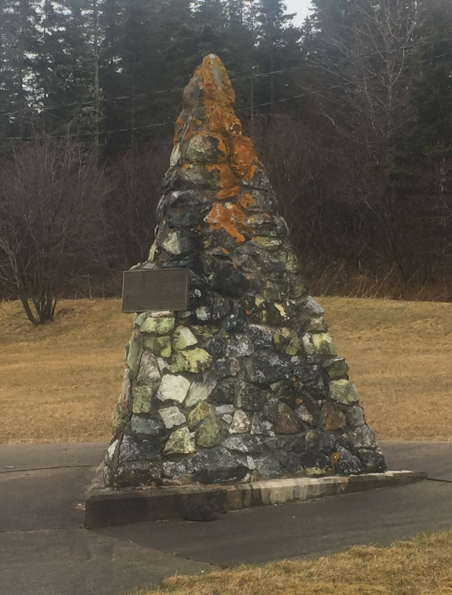 Laurence Kavanagh Cairn, Sydney, Nova Scotia